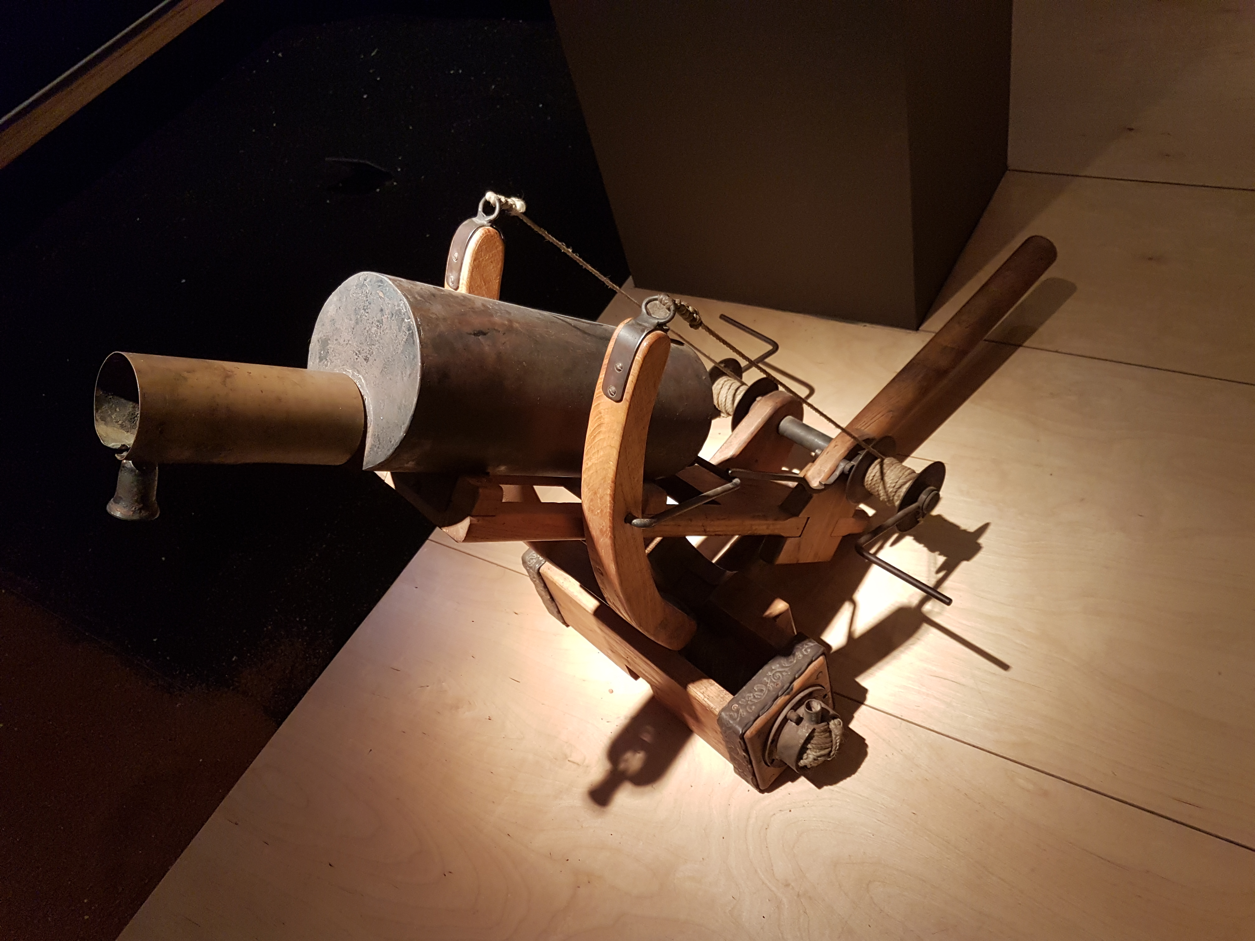 Arbalest flamethrower Greek fire, Byzantine Empire (reconstruction). Thessaloniki Technology Museum